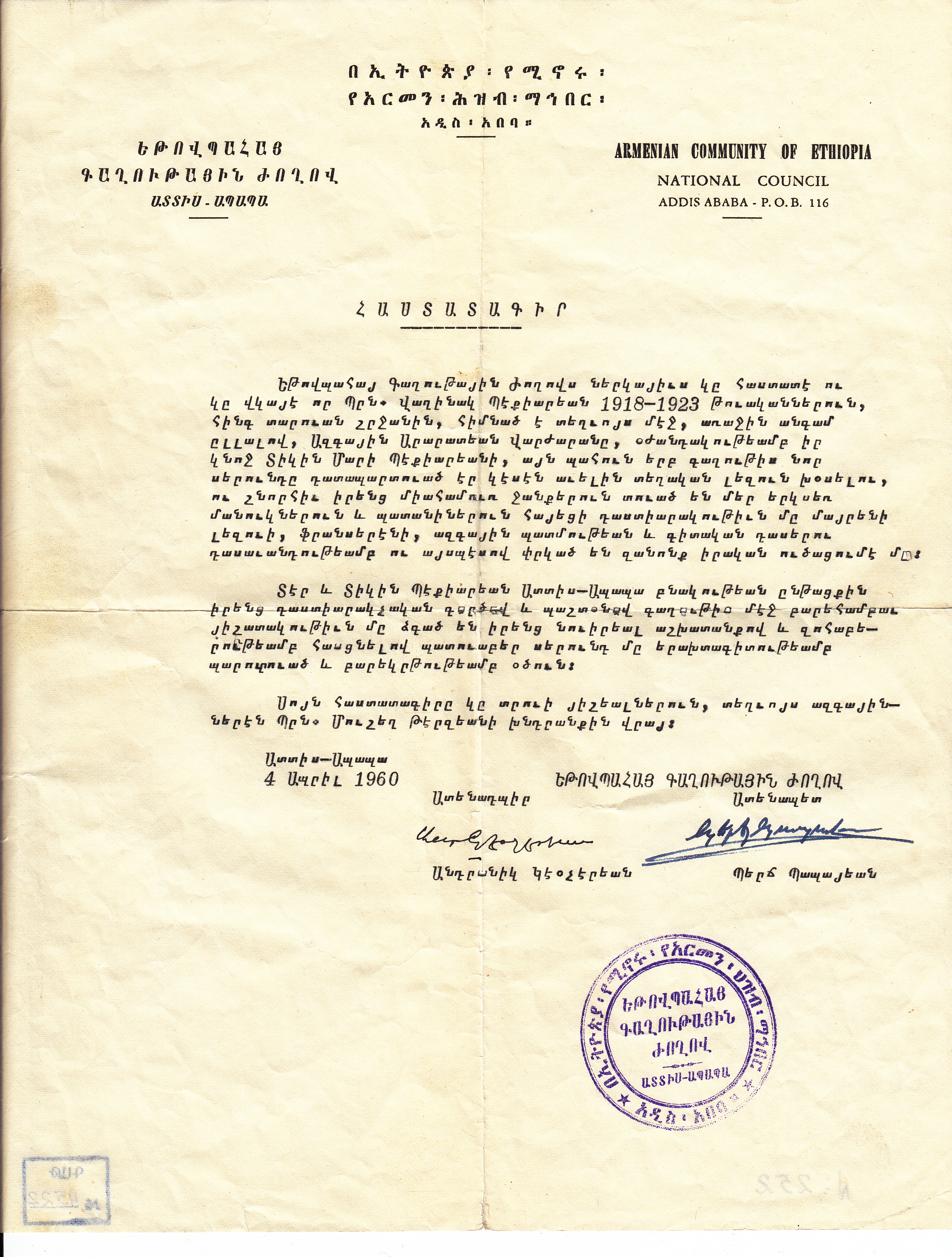 Confirmation letter that Vaghinak and Marie Bekaryan established the Armenian Ararat National College in Addis Ababa in 1918.